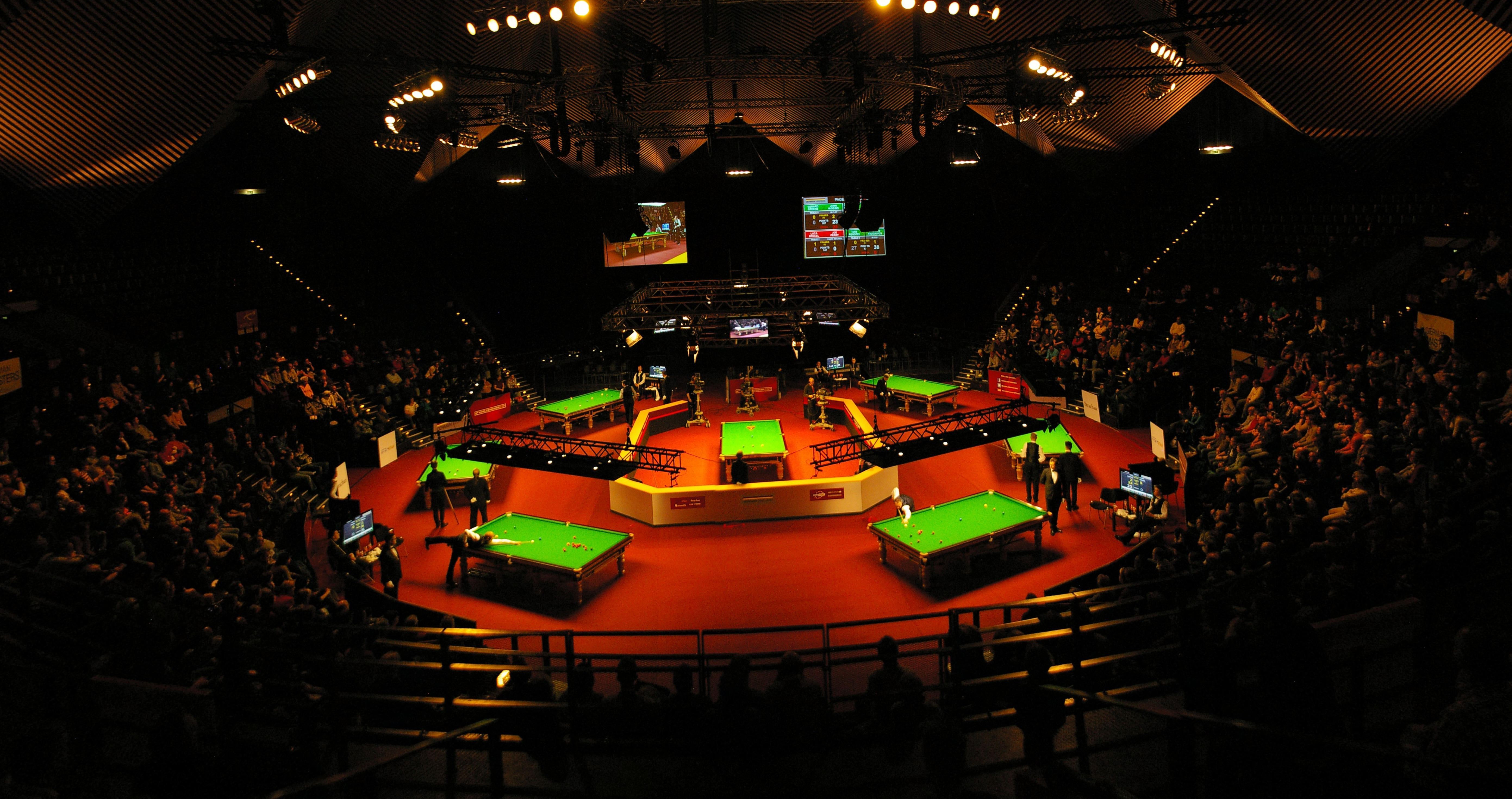 Venue